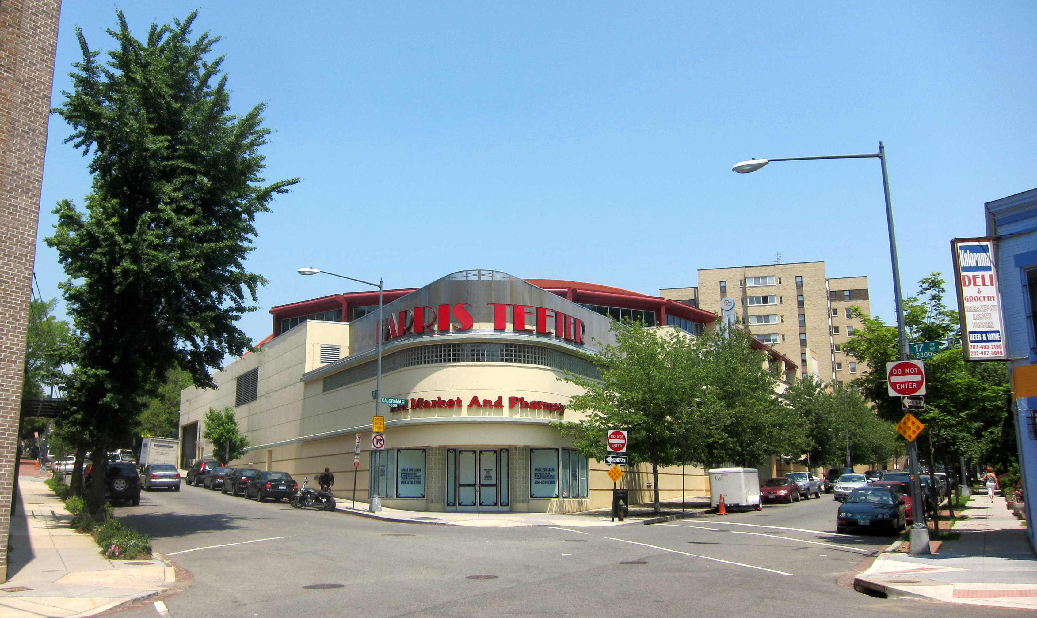 The Citadel – leased to Harris Teeter since 2008 – located at 1631 Kalorama Road, N.W., (northeast corner of 17th Street and Kalorama Road, N.W.) in the Adams Morgan neighborhood of Washington, D.C. Built in 1947, the Streamline Moderne supermarket previously served as a roller skating rink (until 1980), a nightclub, and concert hall.